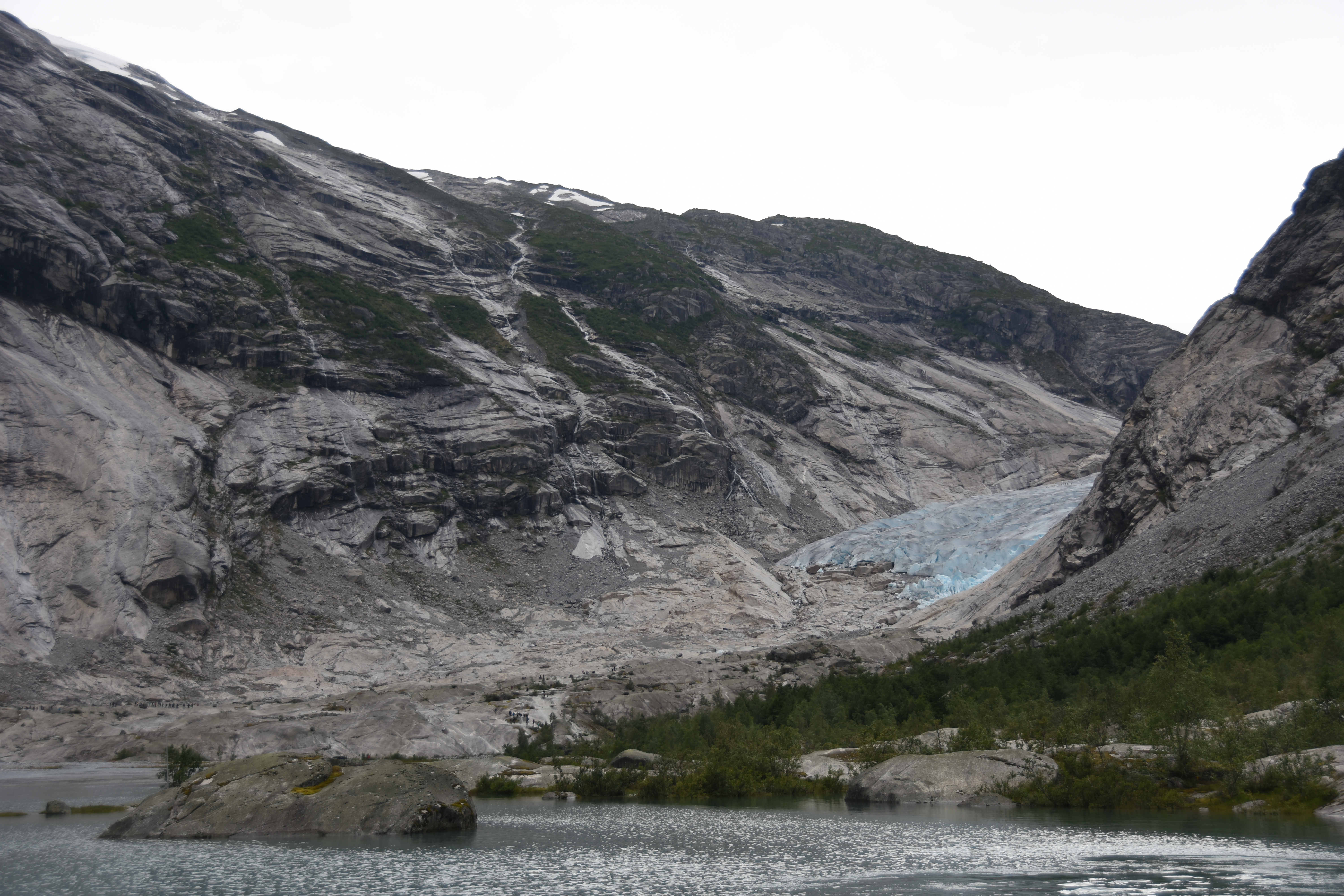 View of the Nigrads in July 2019